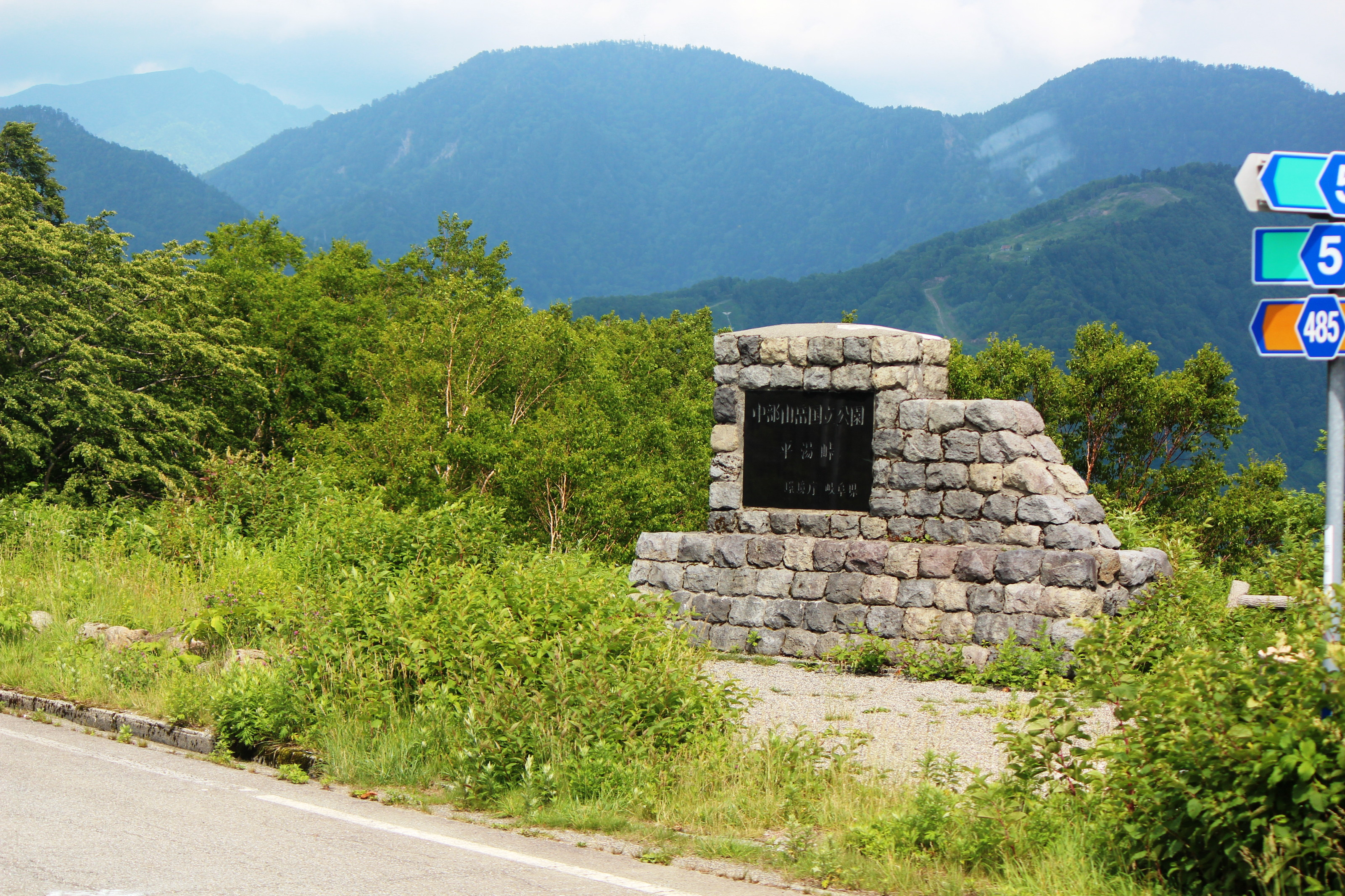 Hirayu Pass, Takayama, Gifu pref., Japan.